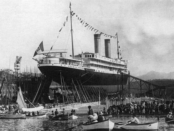 Launch of the SS Principessa Jolanda at Cantiere Navale di Riva Trigoso, near Genoa, Italy